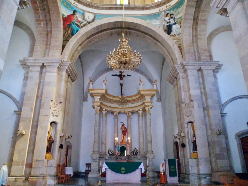 Saint John the Baptist Church, Sultepec, Mexico state, Mexico